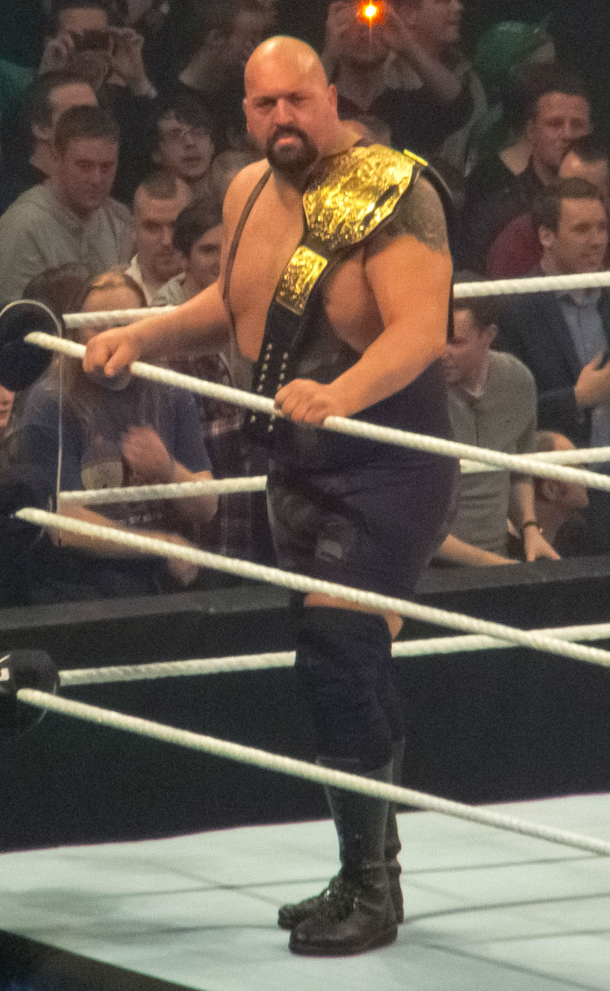 Big Show with the World Heavyweight Championship.